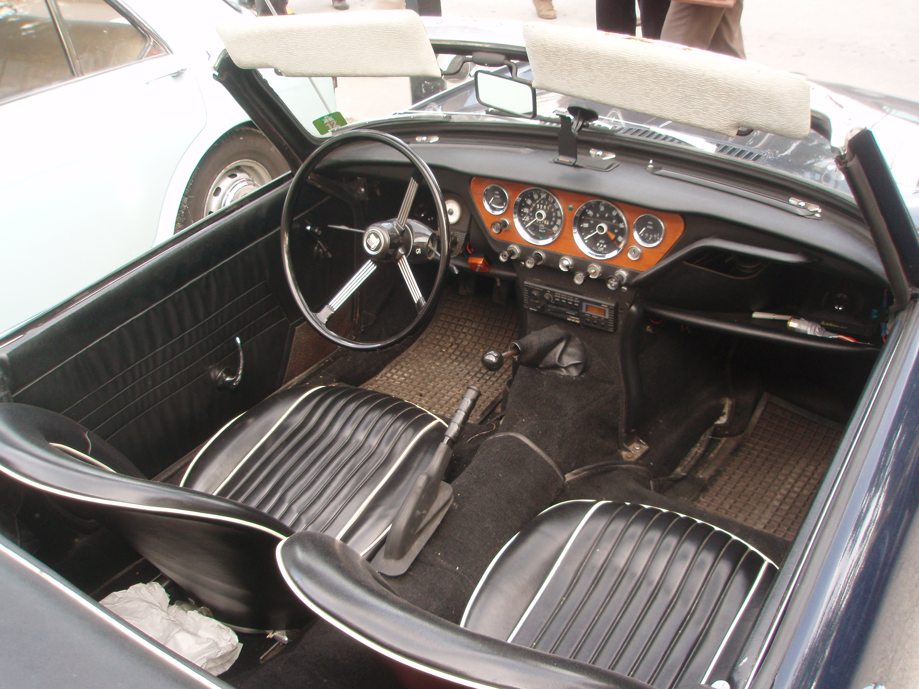 Triumph Spitfire Mk3